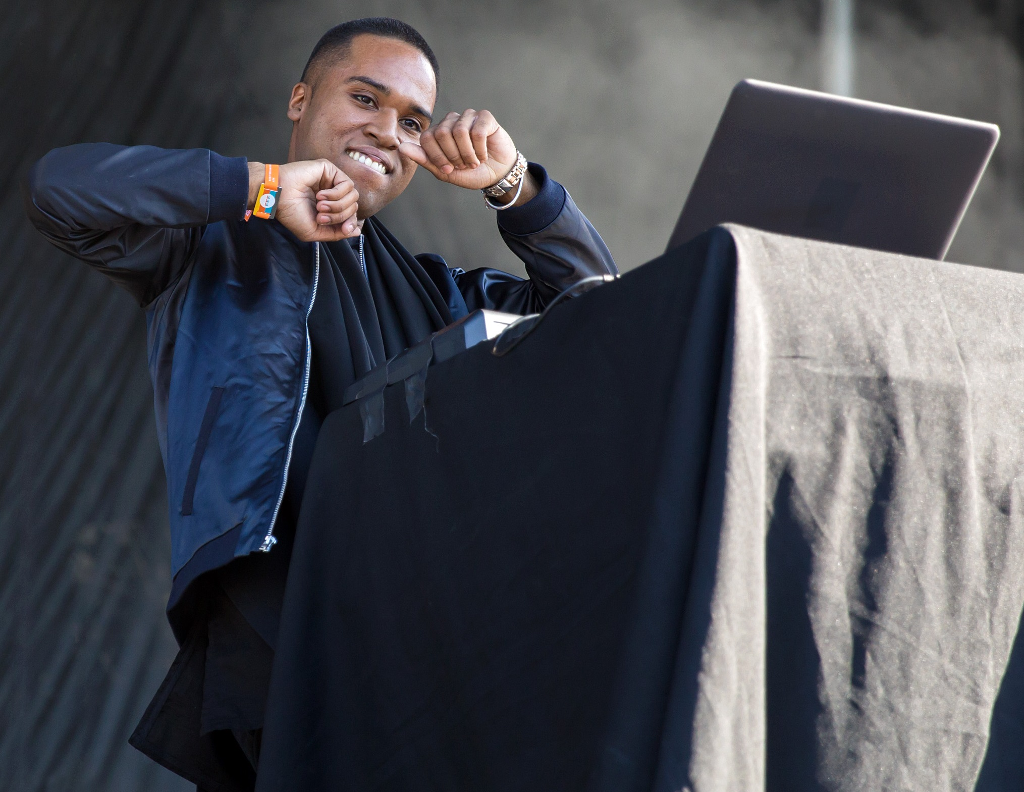 Lunice Fun Fun Fun Fest 2014 in Austin, Texas